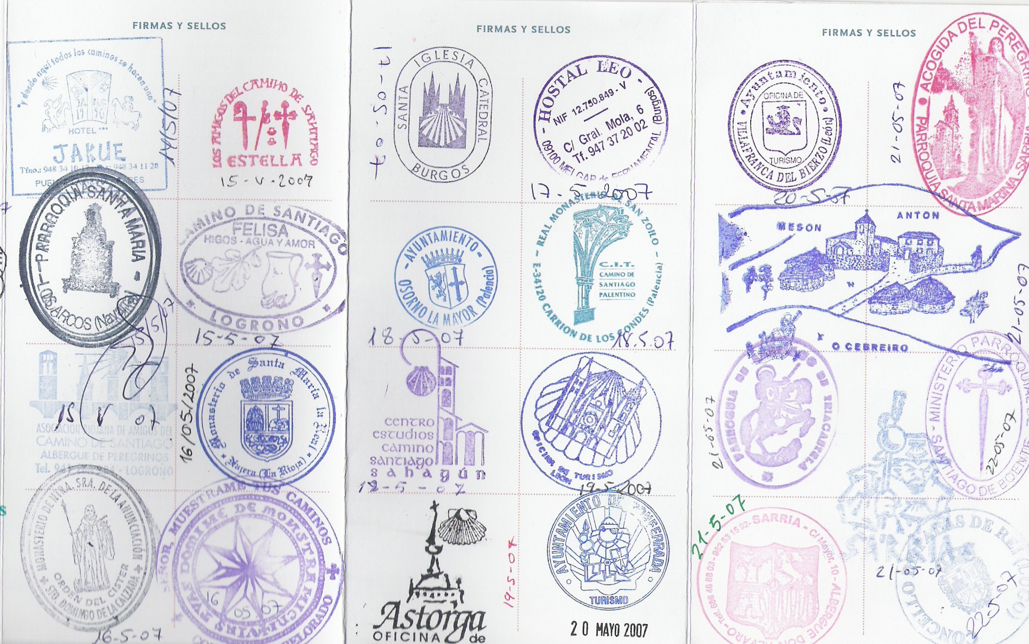 Picture of St. James stamps in Spain stamped in "Way of St. James" pilgrim passport from May 2007 bicycle trip (the passport was obtained beforehand in Utrecht at the Dutch Confraternity office there). The route taken was determined by the St. James waybook guide called "St. Jacobs Fietsroute" by Clemens Sweerman. Scan date: June 2007